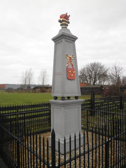 At the road side between Hensbroek and Obdam a boundary marker, crowned with a flaming pot and at the front the coat of arms of Obdam and the year 1835.